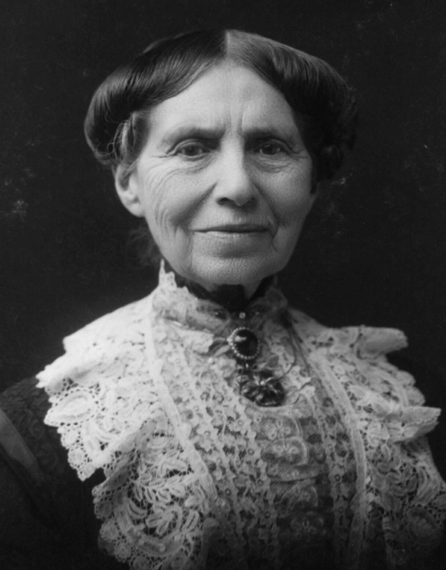 Clara Barton (1821–1912), founder of the American Red Cross